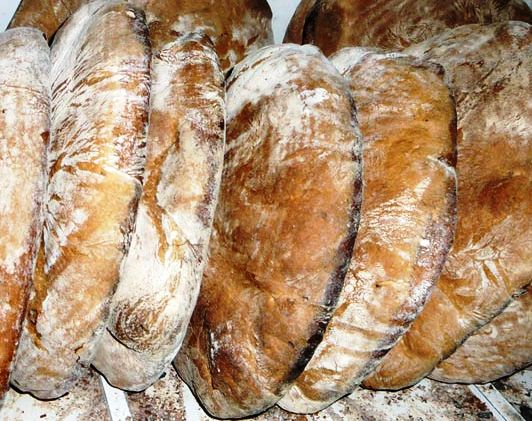 Il classico pane di Monte Sant'Angelo